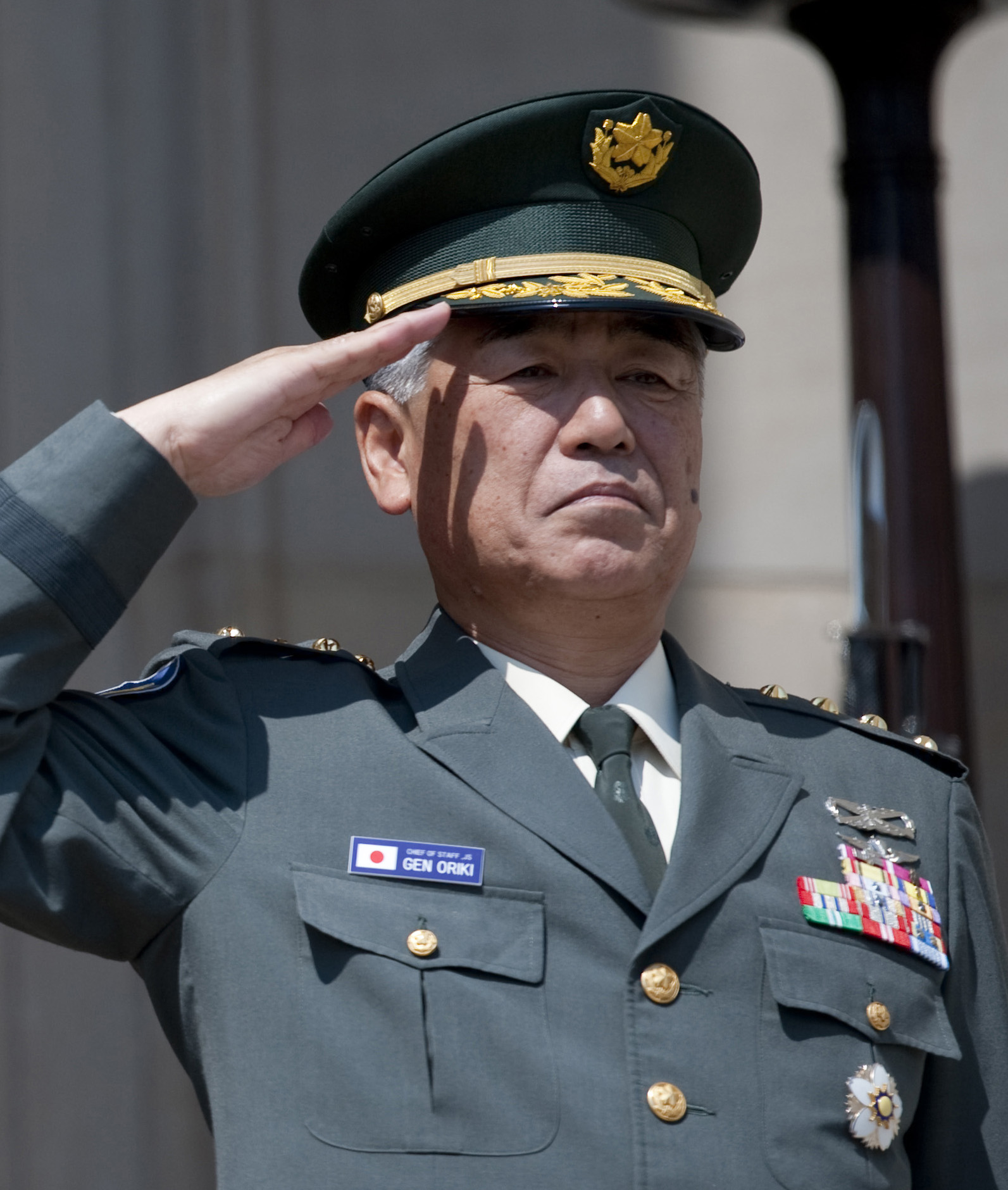 Chief of Staff of the Japanese Self Defense Force Gen. Ryoichi Oriki